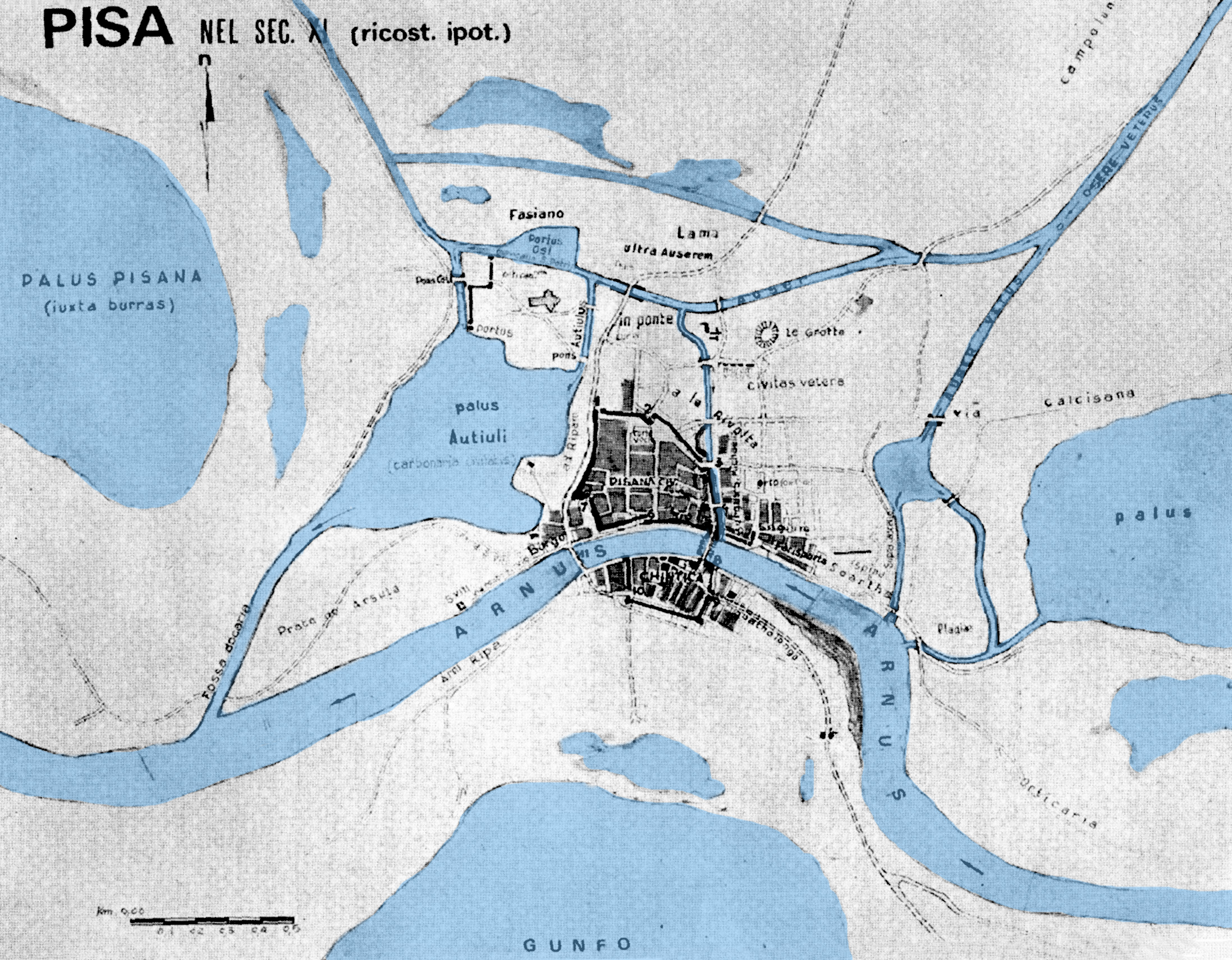 Hypothetical map of Pisa in the eleventh century AD After the fall of Roman Empire, the city was highly reduced in extension, but since the 11th century it begun to grow again due to the powerful maritime dominion. Water has been considerably reduced in the centuries, but the river Auser (on the north) is still navigable with barges. The south part of the city (south of river Arno) wasn't actually the city, but a satellite town for commerce. The northern part was rounded with walls.